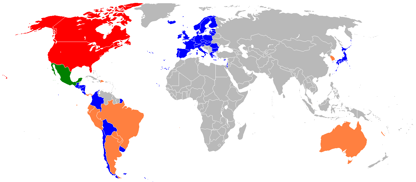 Map of Free Trade Agreements of Mexico. Green is Mexico. Red are the other countries of the NAFTA. Blue are countries which have a FTA with Mexico. Orange are countries that want to have a FTA with Mexico.